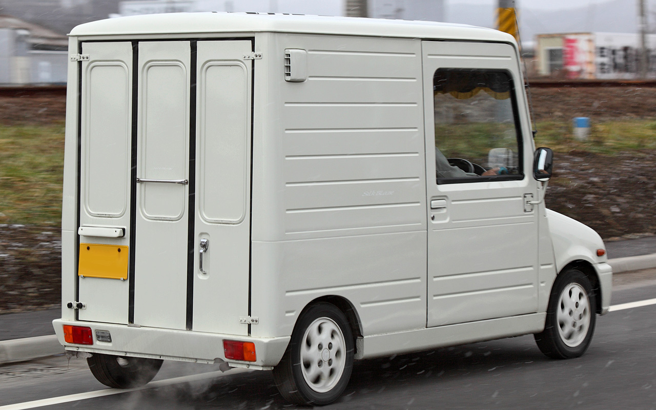 Walk-through Van of thr third generation Daihatsu Mira.